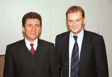 Antanas Valionis and Donald Tusk